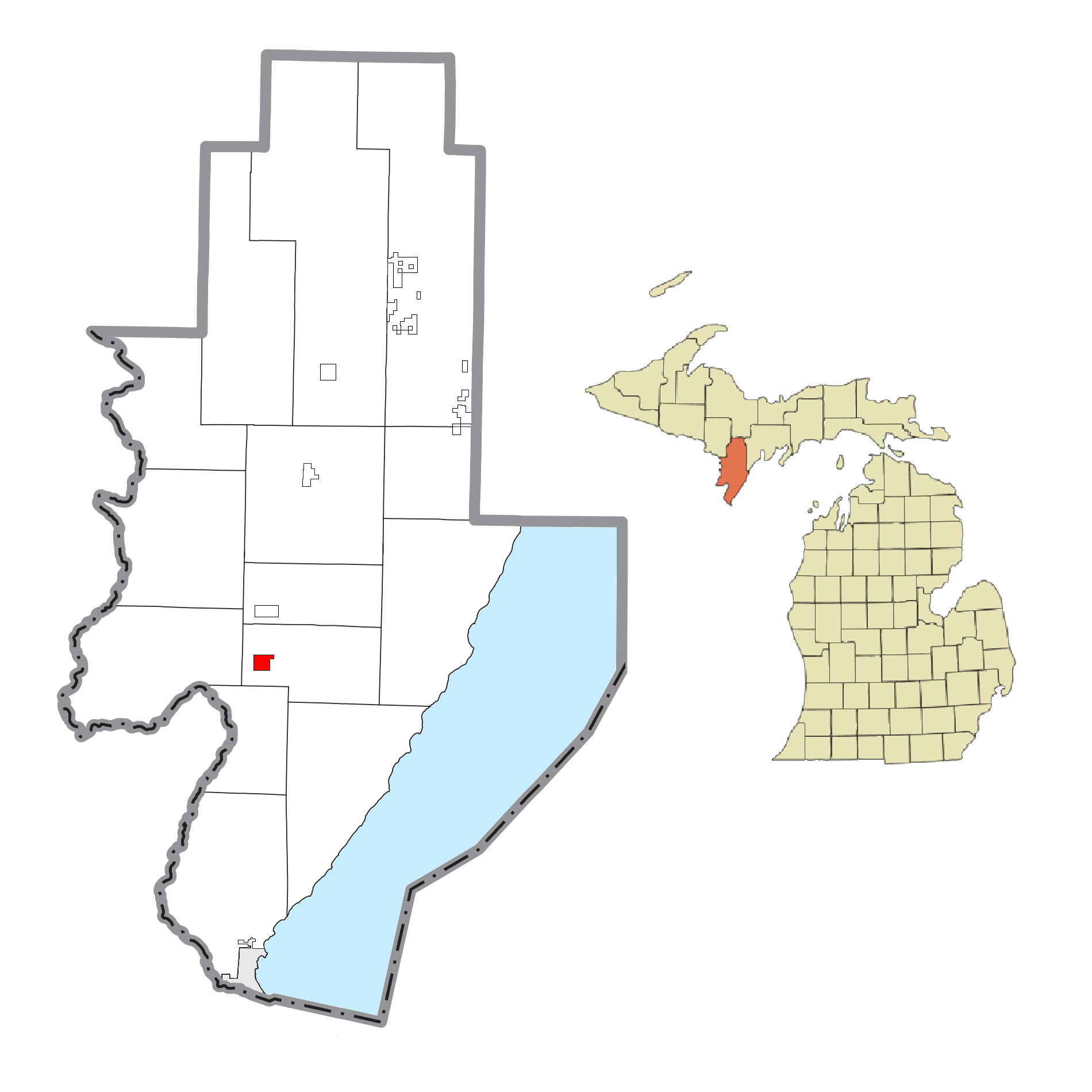 Stephenson, MI